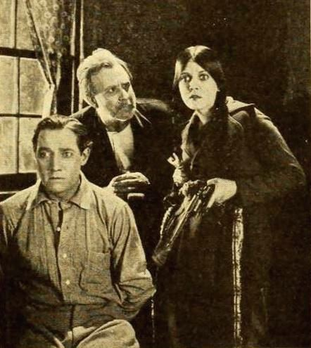 Still from the American drama film A Daughter of the Wolf (1919) with Elliott Dexter, an unidentified actor, and Lila Lee, on page 1975 of the June 28, 1919 Moving Picture World.